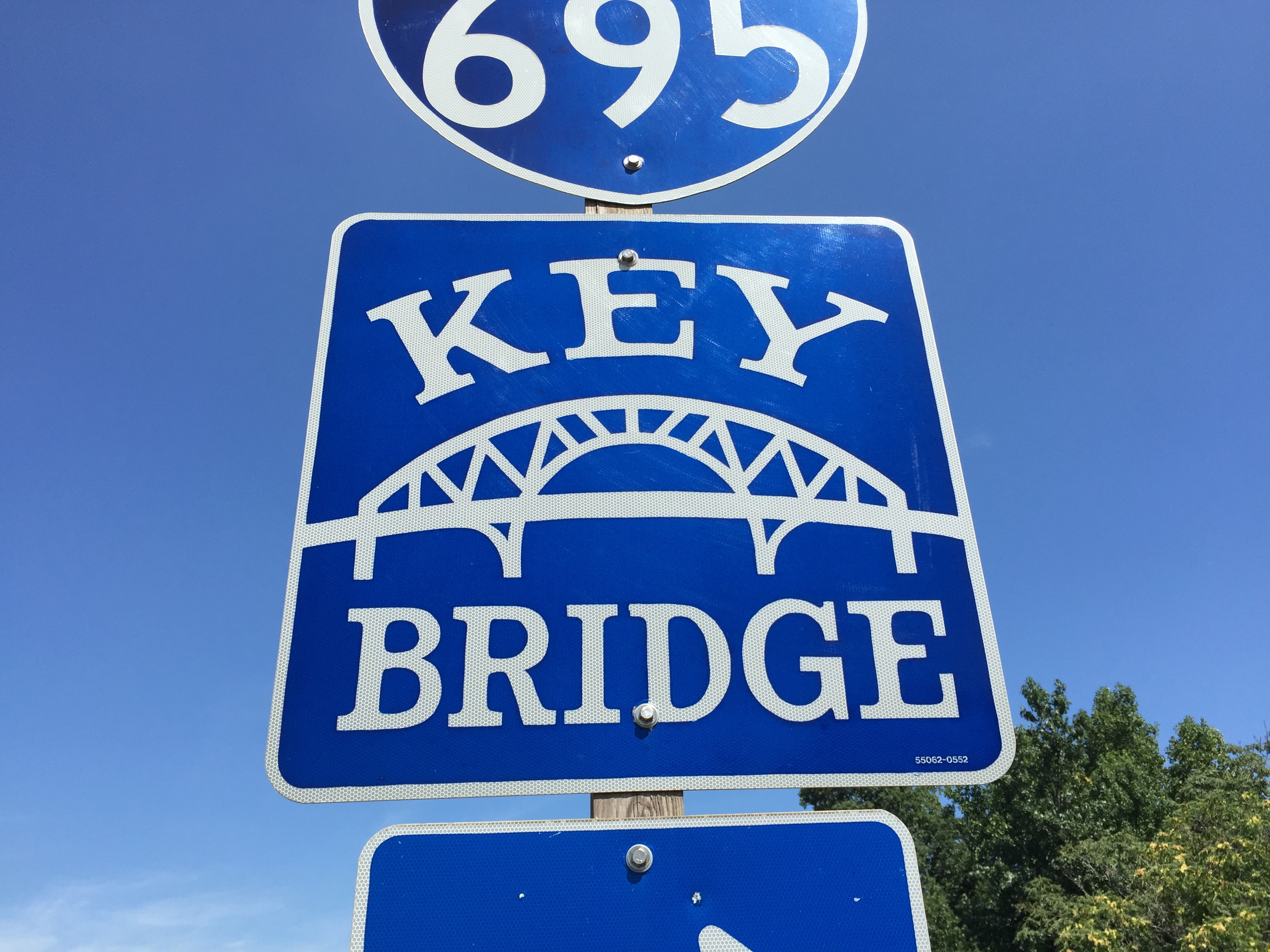 Sign for the Francis Scott Key Bridge (Interstate 695) along northbound Maryland State Route 173 (Fort Smallwood Road) just north of Cabot Drive in Pasadena, Anne Arundel County, Maryland